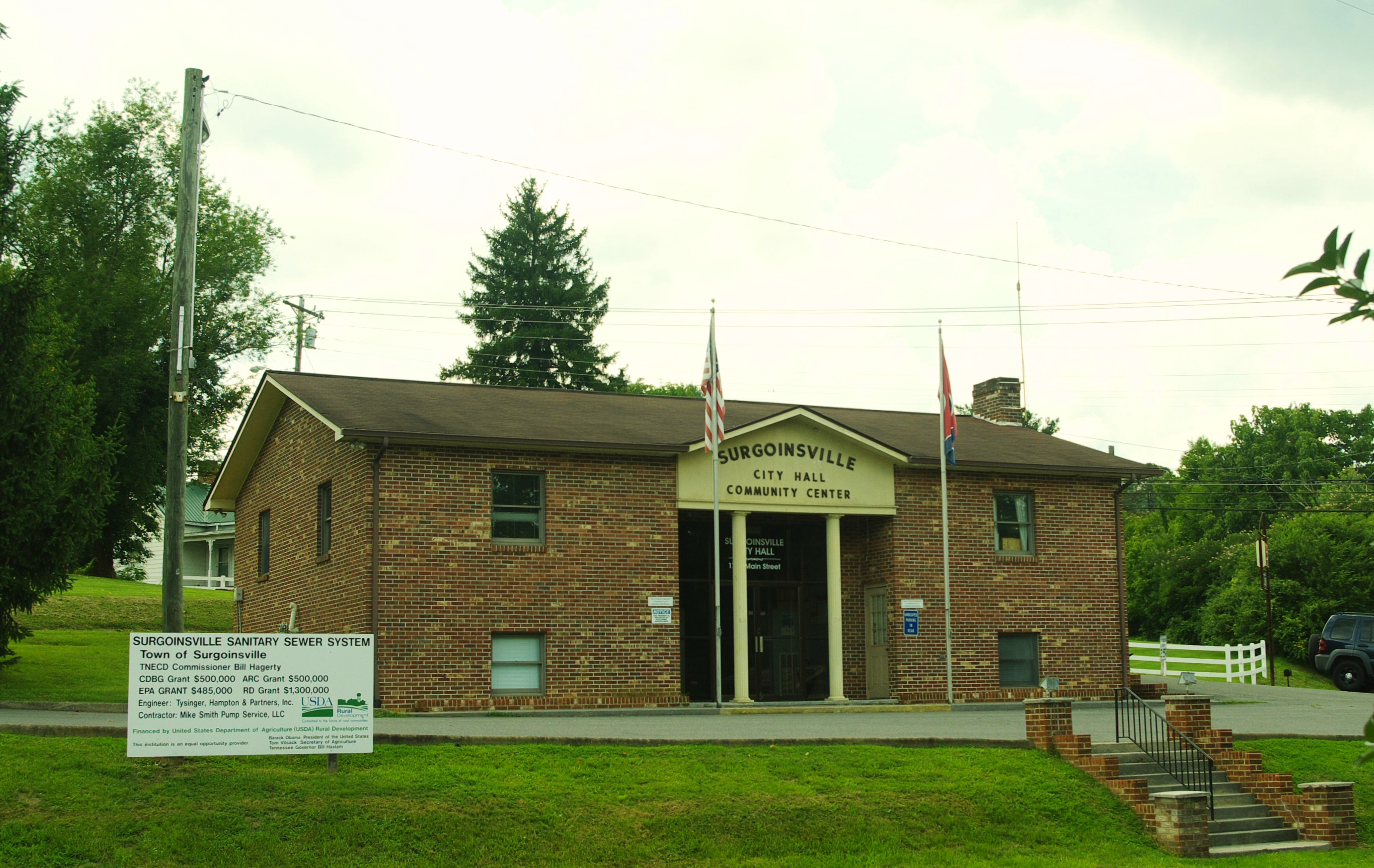 City Hall and Community Center in Surgoinsville, Tennessee, United States.